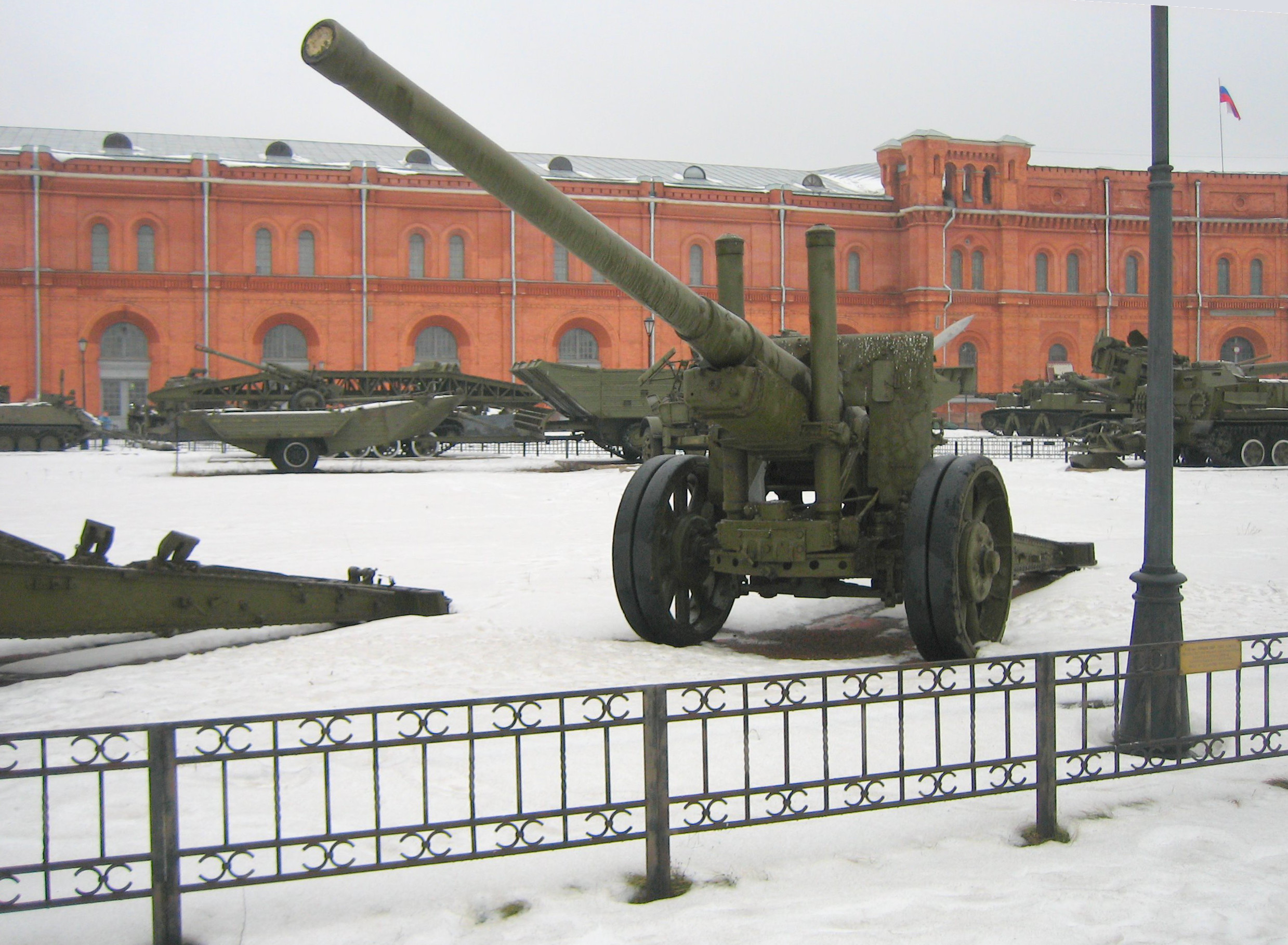 Soviet 122 mm А-19 Mark 1931 gun, displayed in Saint Petersburg Artillery Museum.